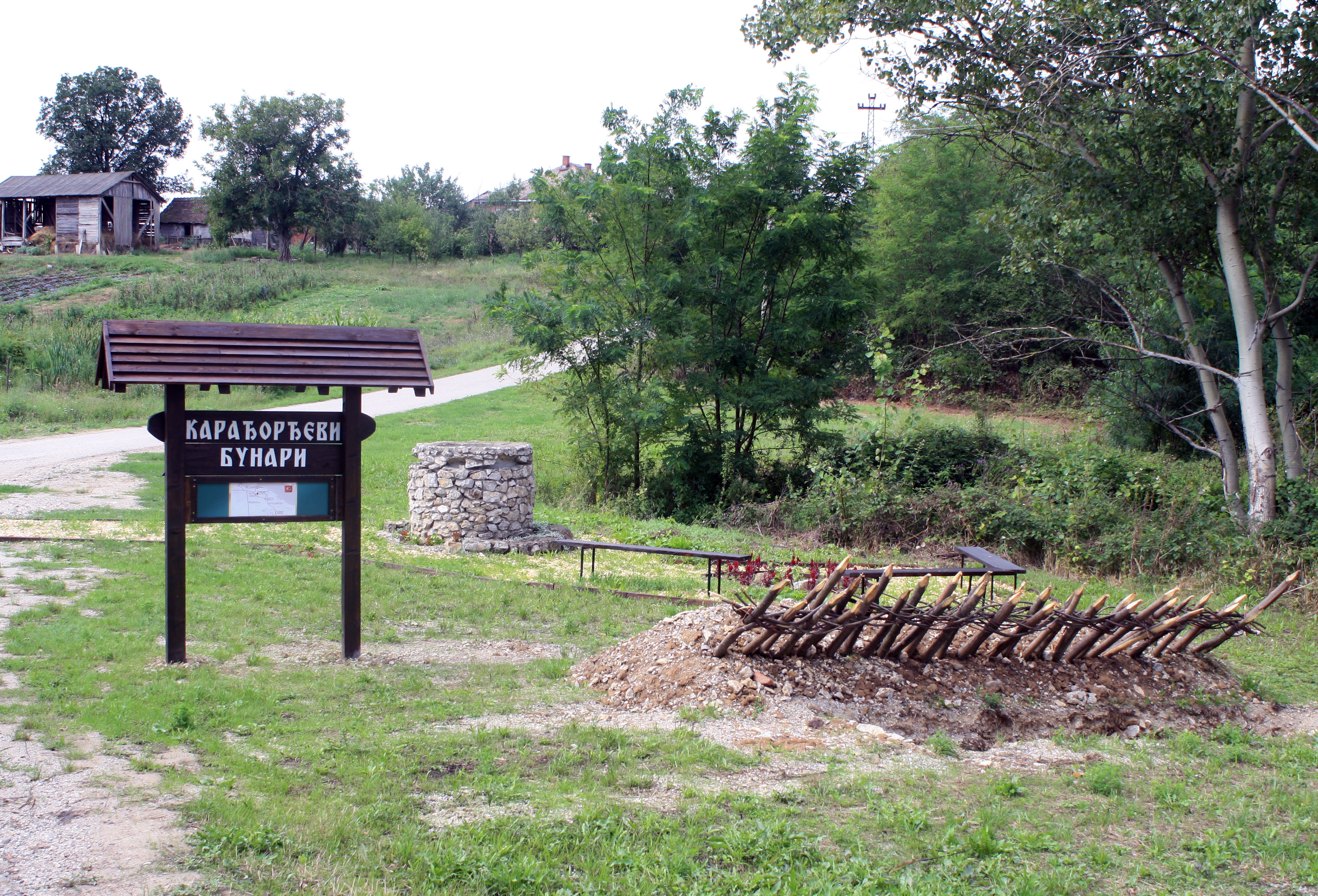 Karageorg's well.